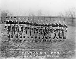 The 1922-23 Canton Bulldogs